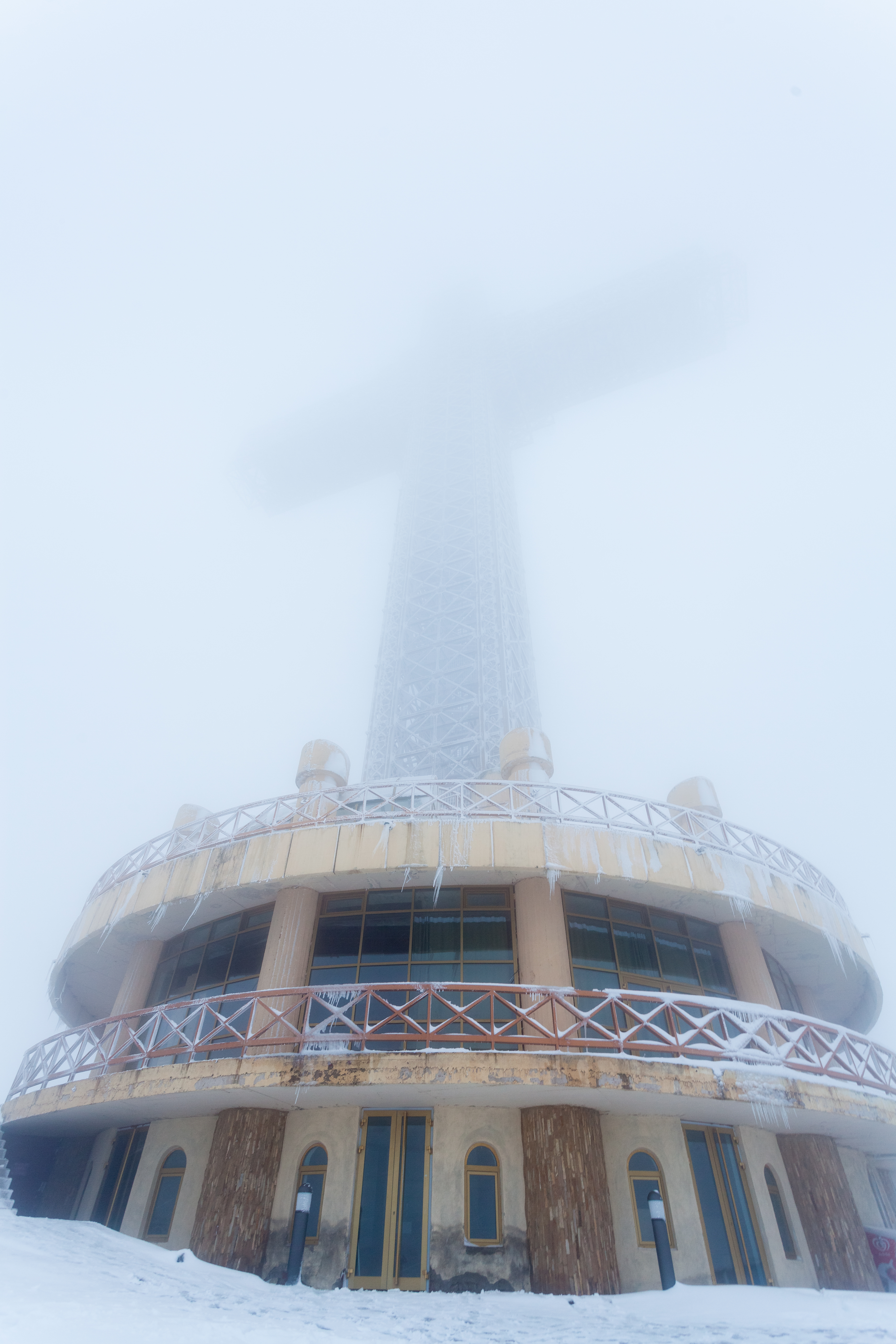 Millennium Cross, Skopje, Macedonia